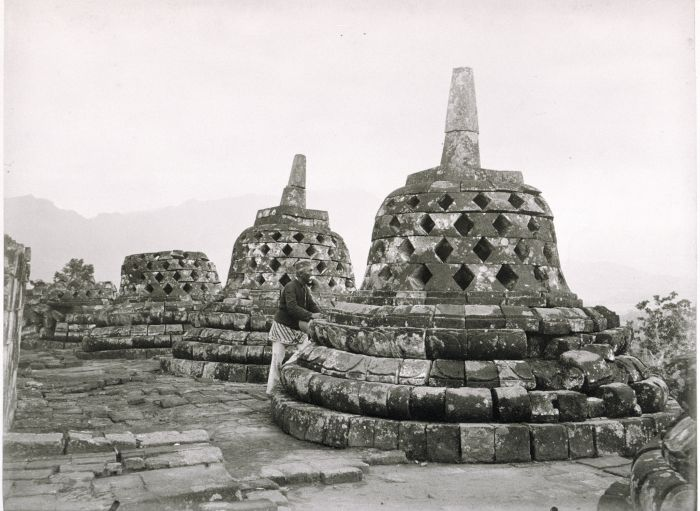 Photograph by Kassian Cephas of the stupas on the top of Borobudur, Central Java, Indonesia